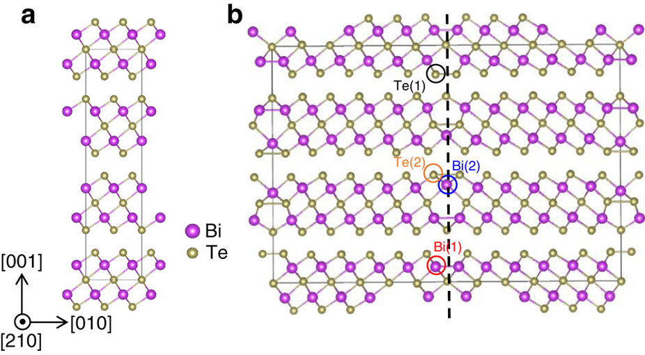 Atomic structures of (a) the unit-cell of Bi2Te3 and (b) Bi2Te3 with a 60° twin boundary. The dotted black line indicates the 60° twin boundary.